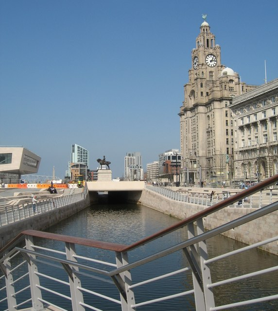 Leeds-Liverpool Canal Link at the Pier Head The £22 million pound 1.6 mile extension to the Leeds-Liverpool Canal was officially opened on the 25th March 2009. It opens to boaters at the end of April and links the 127 miles of the existing canal to the city’s South Docks, passing Pier Head and the famous Three Graces.